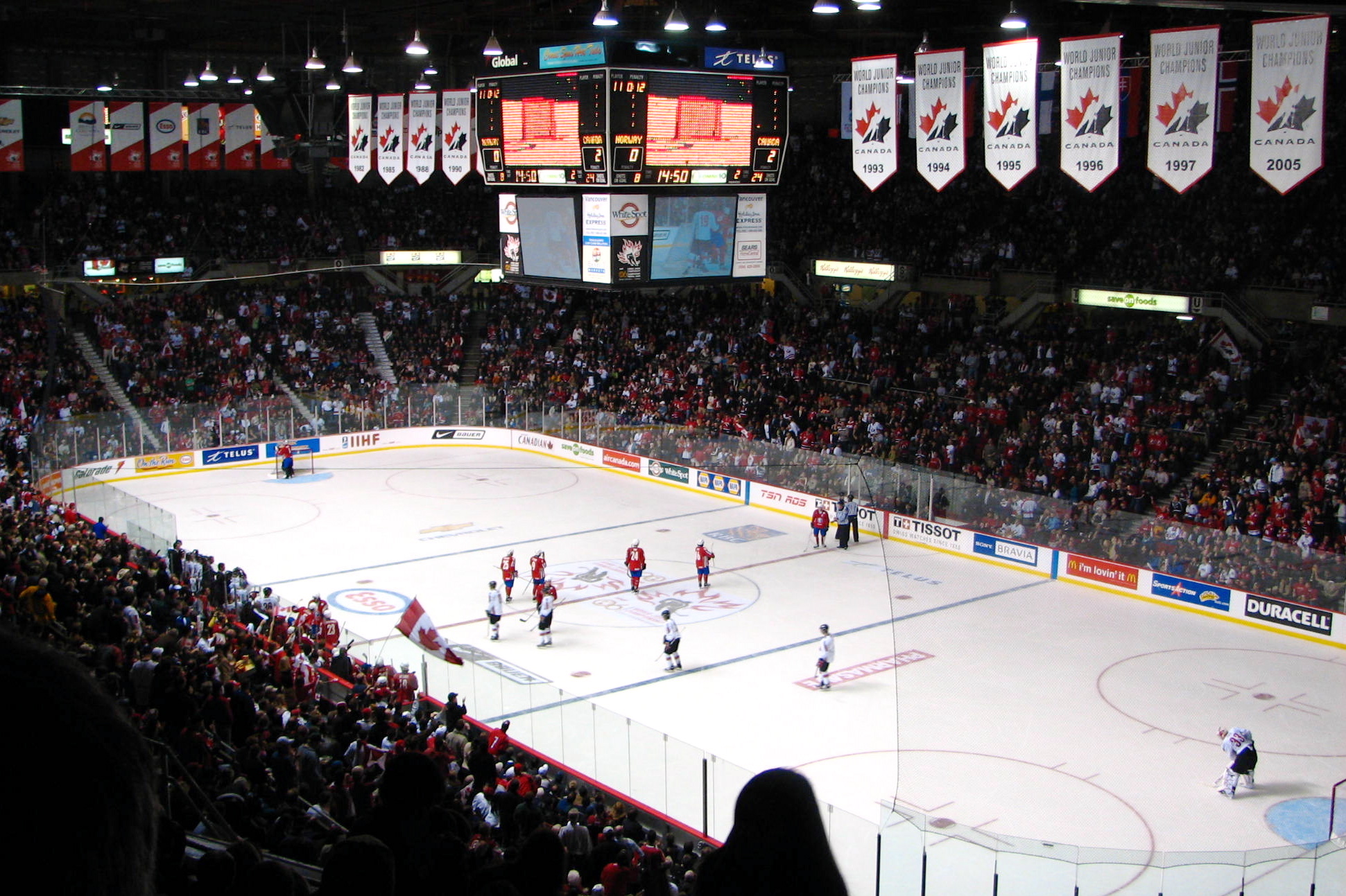 Norway vs Canada game at IIHF U20 2006 championships.